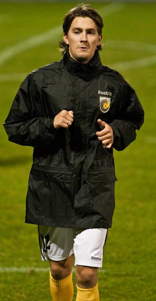 Nicky Travis at a pre-season match between the Central Coast Mariners and Sydney FC.